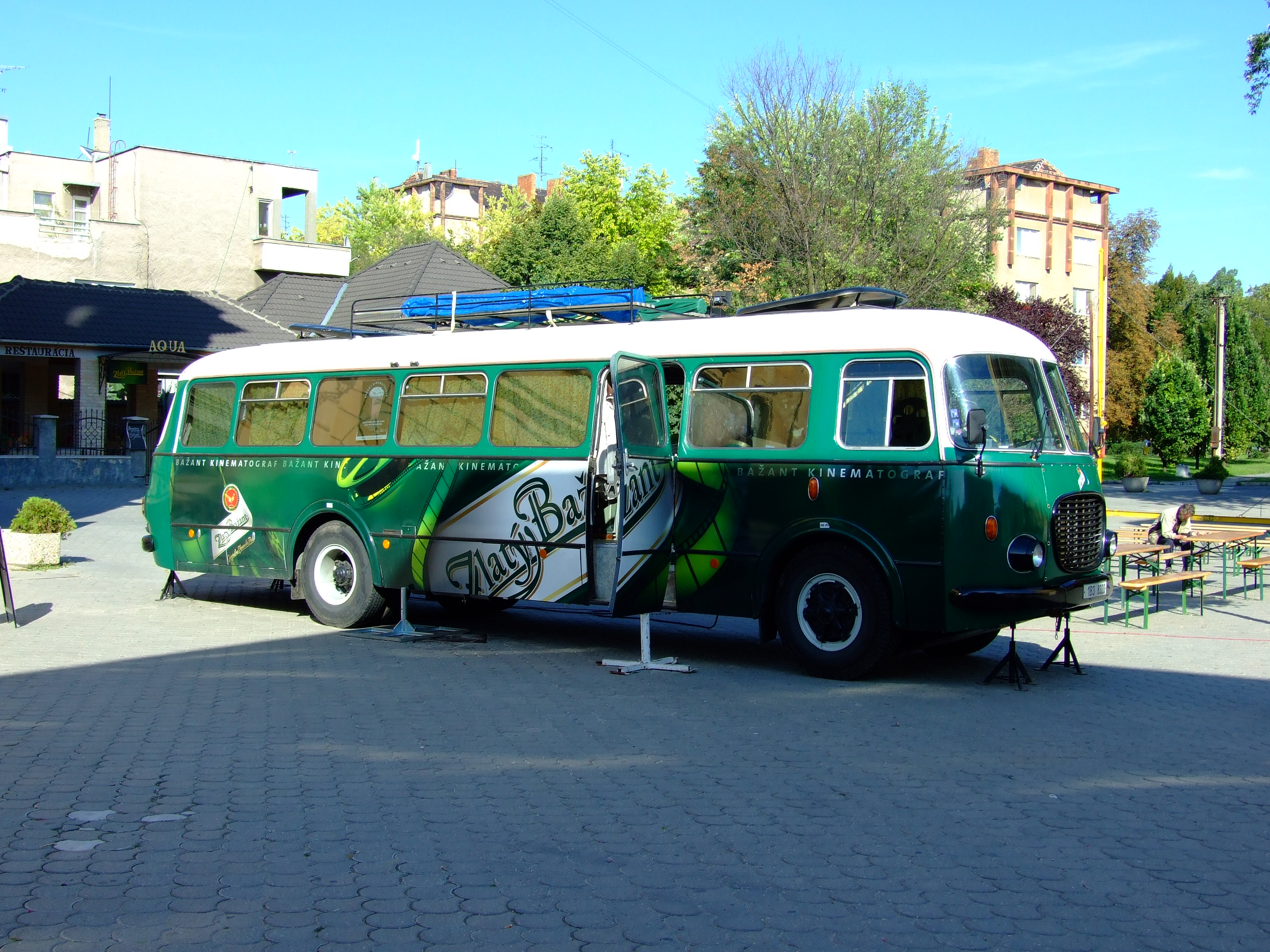 Jelcz 043 advertisement bus in Komárno city center